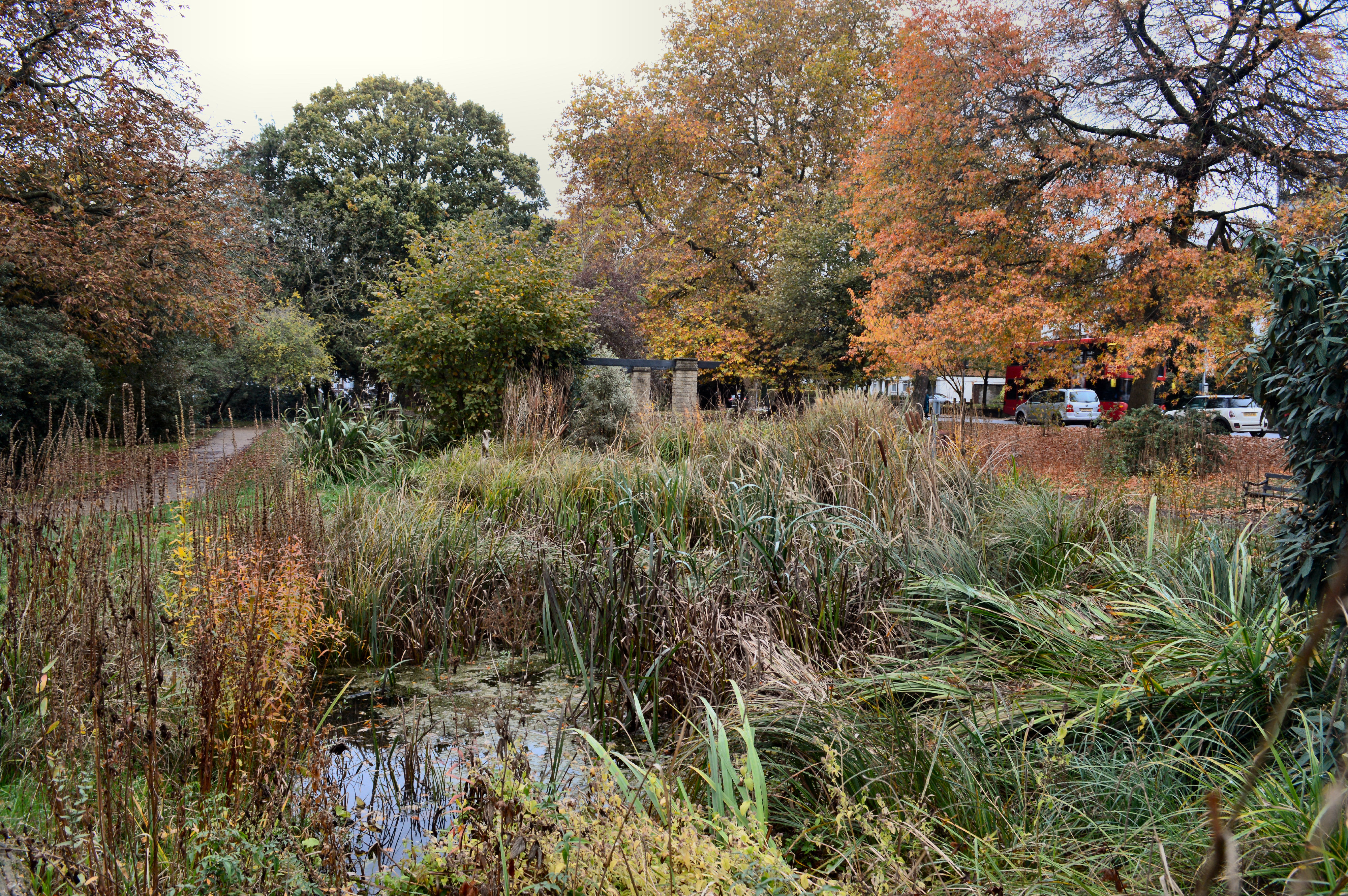 Surbiton, Claremont Garden's Pond, autumn